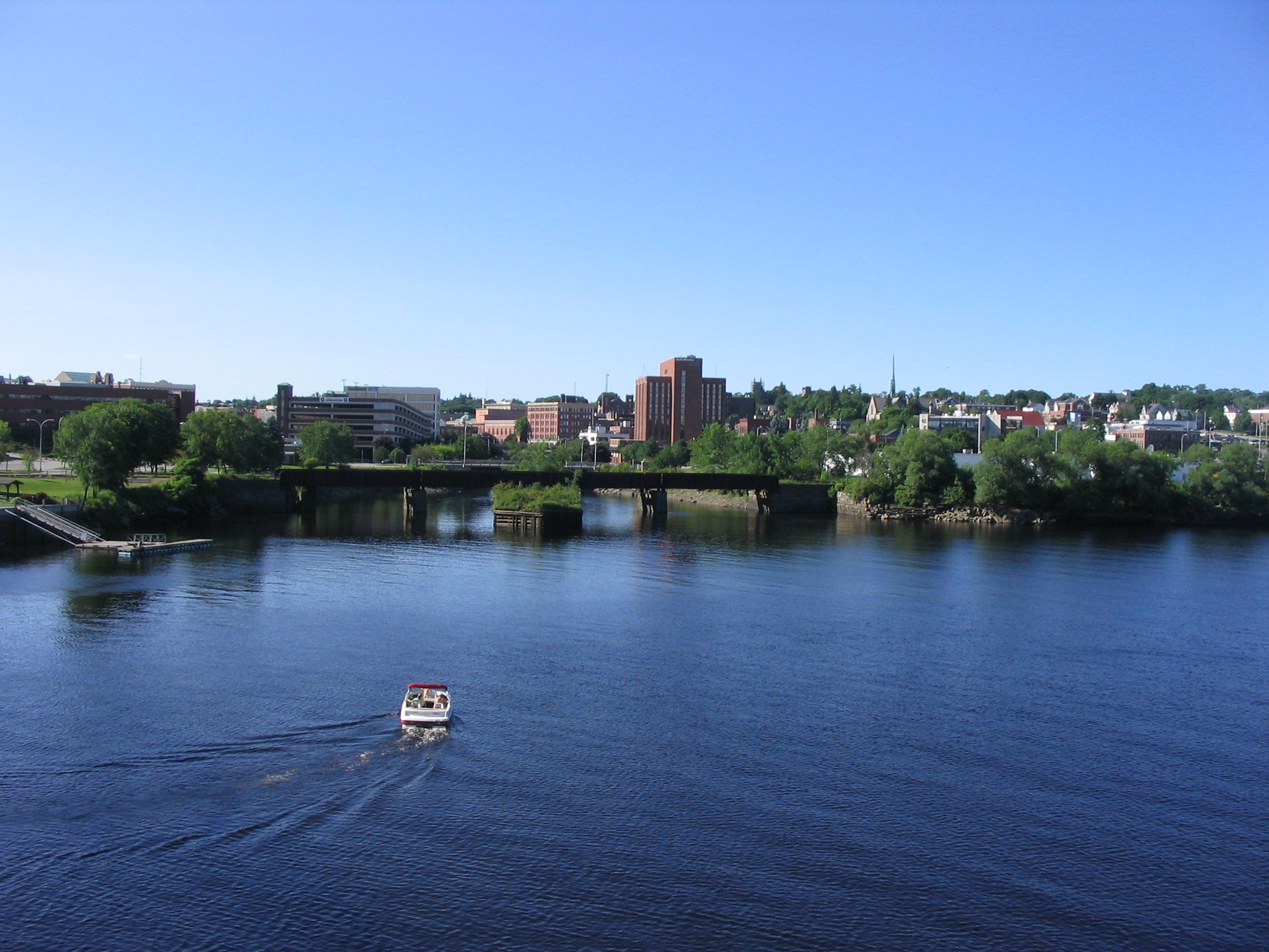 I am the creator of this photograph. It was taken in the summer of 2005.